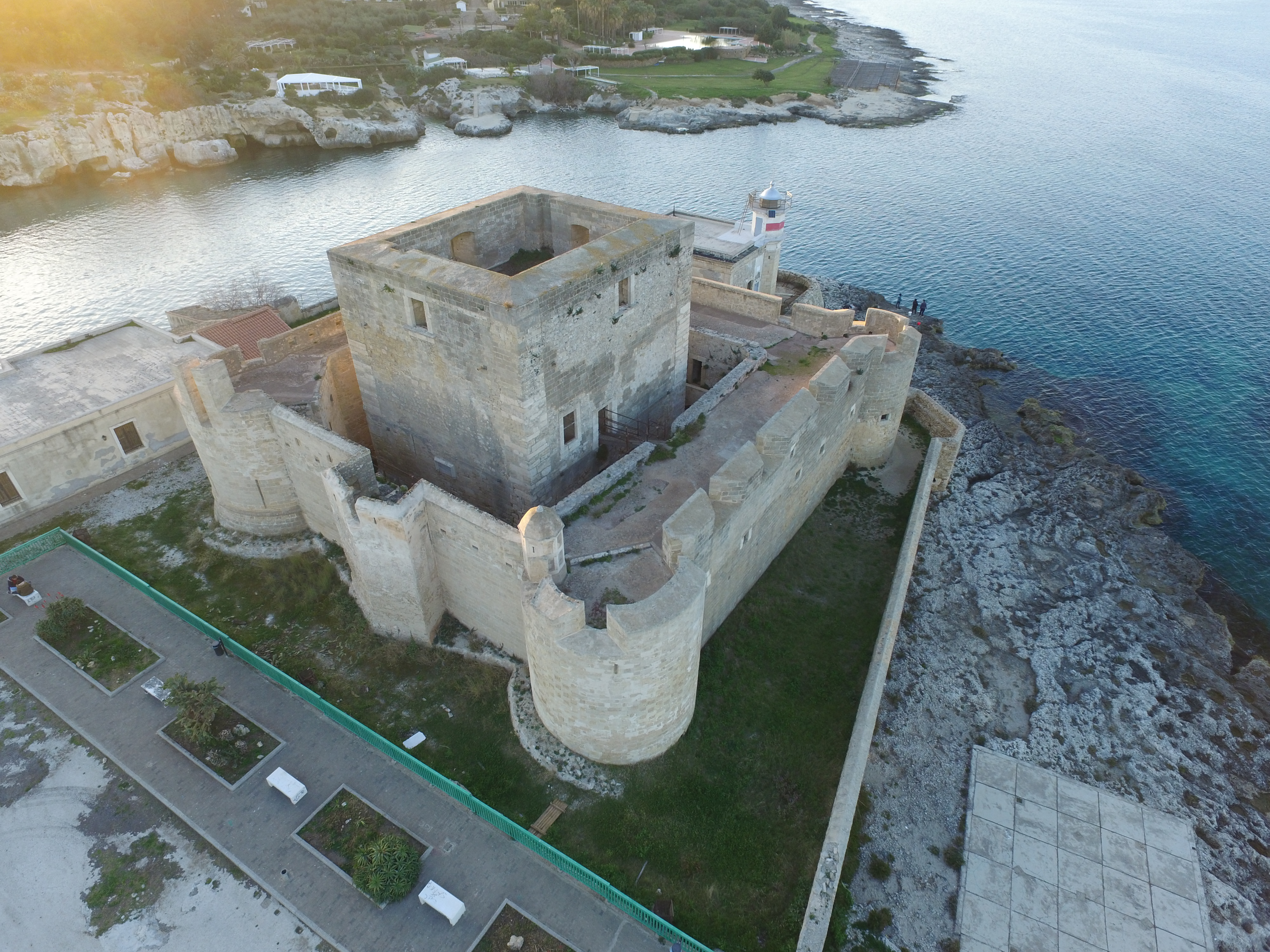 The castle of Brucoli, located in the homonymous village, was commissioned by King John II of Aragon and donated to Queen Joan of Aragon. The latter, in 1468, granted the construction to Giovanni Cabastida, a chamberlain from Barcelona, ​​who had it in concession for three generations. The reason why such a fortified structure was built was mainly to protect itself against an exponential growth of the Turks. In the century following the building of the castle, the Barbaresque incursions of the Turks were added to those coming from the northern coasts of Africa, which among other things is linked to the legend of the Patron Saint. The castle with Etna in the distance The fortress arose at the mouth of the canal-port not only for defensive purposes, but also to control maritime trade and keep the grain reserves flowing there. So for the protection of those traffics and the small village that stood at his feet, the castle assumed a role of fundamental protection.